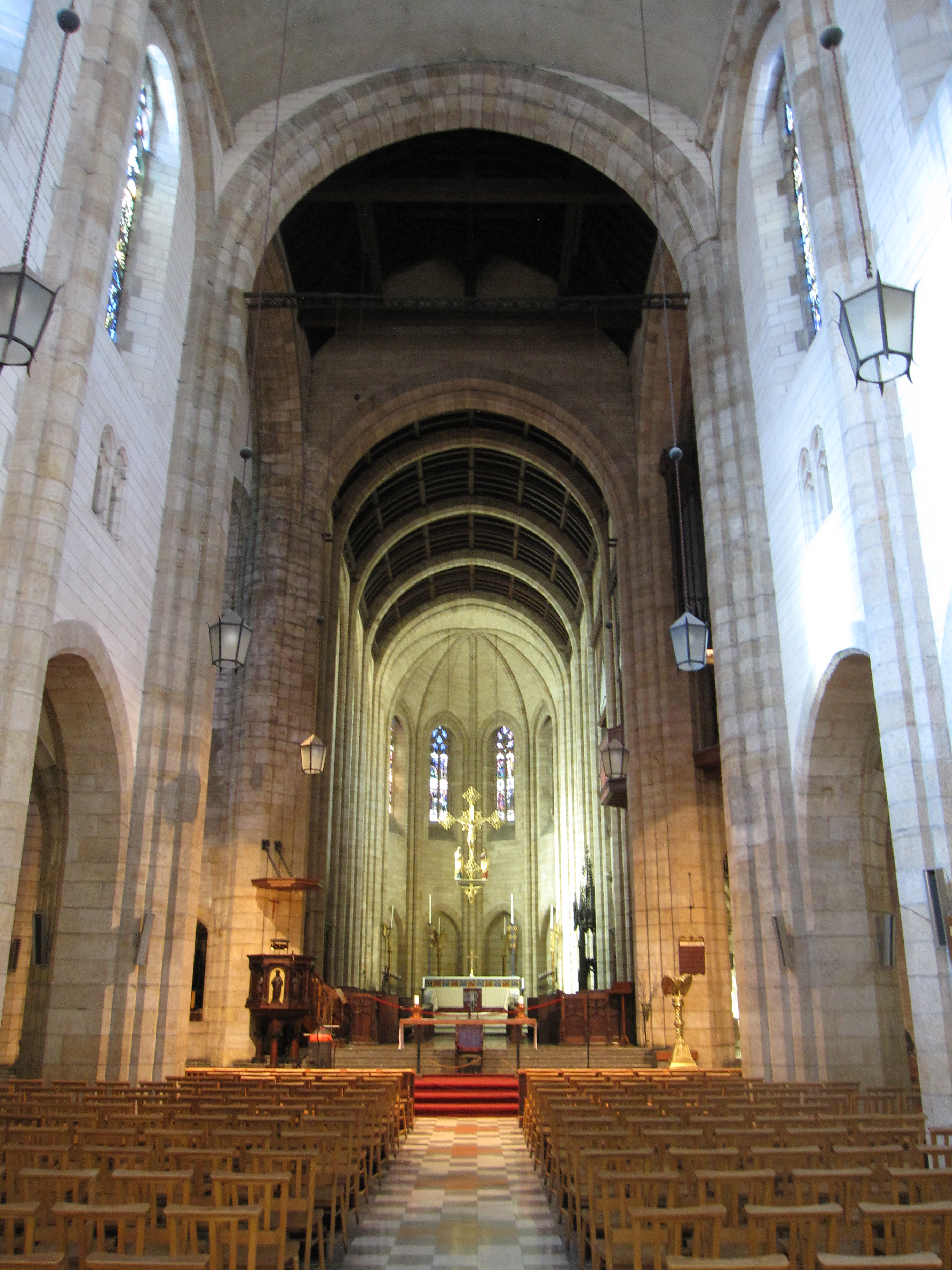 Interior